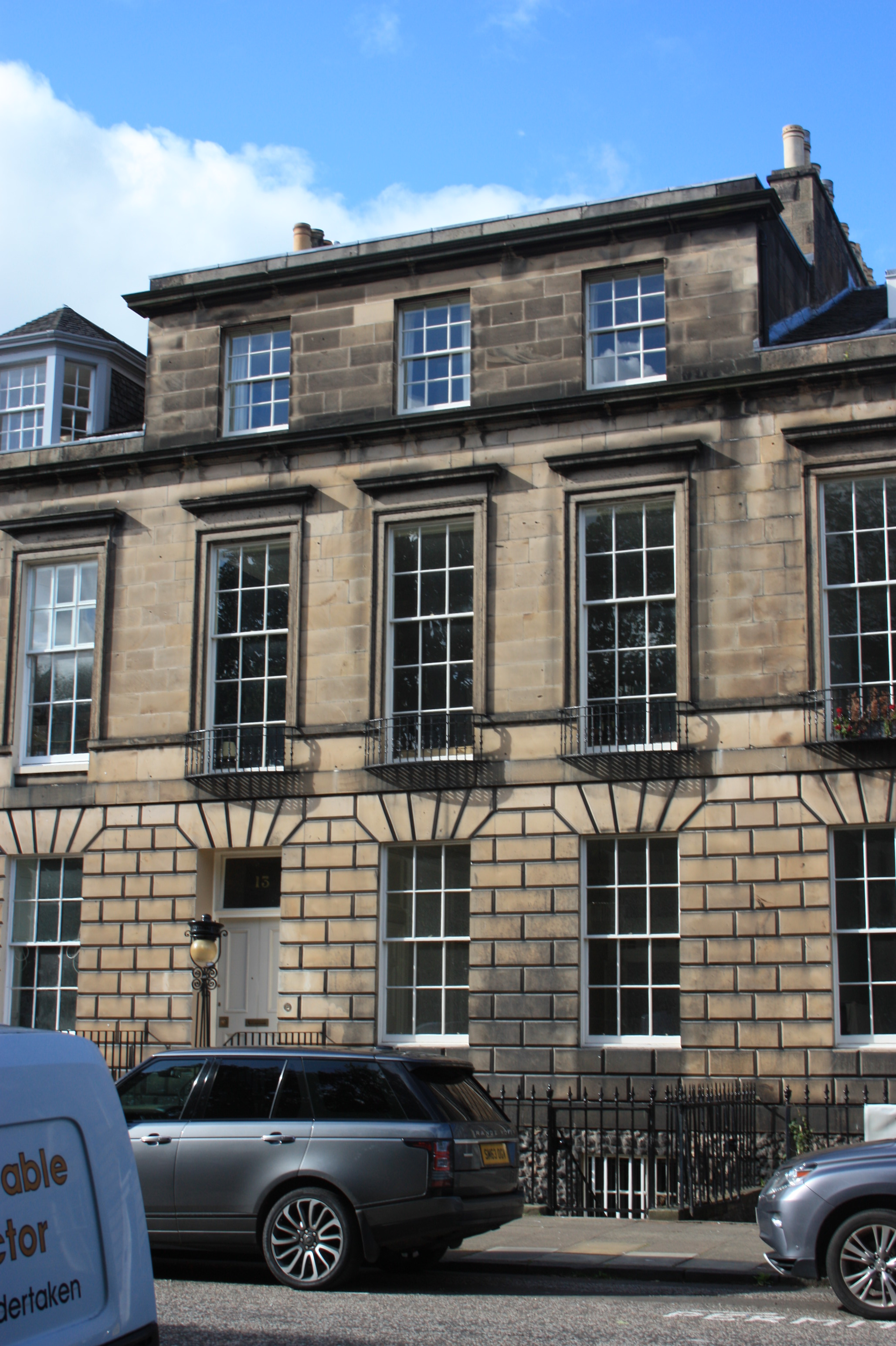 13 Heriot Row, Edinburgh townhouse